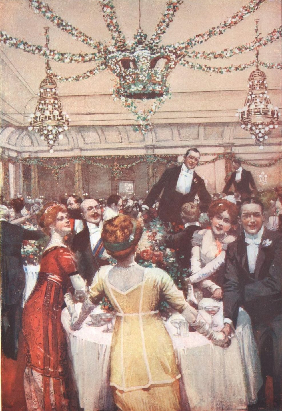 New Year's Eve at the Savoy Hotel, London 1910